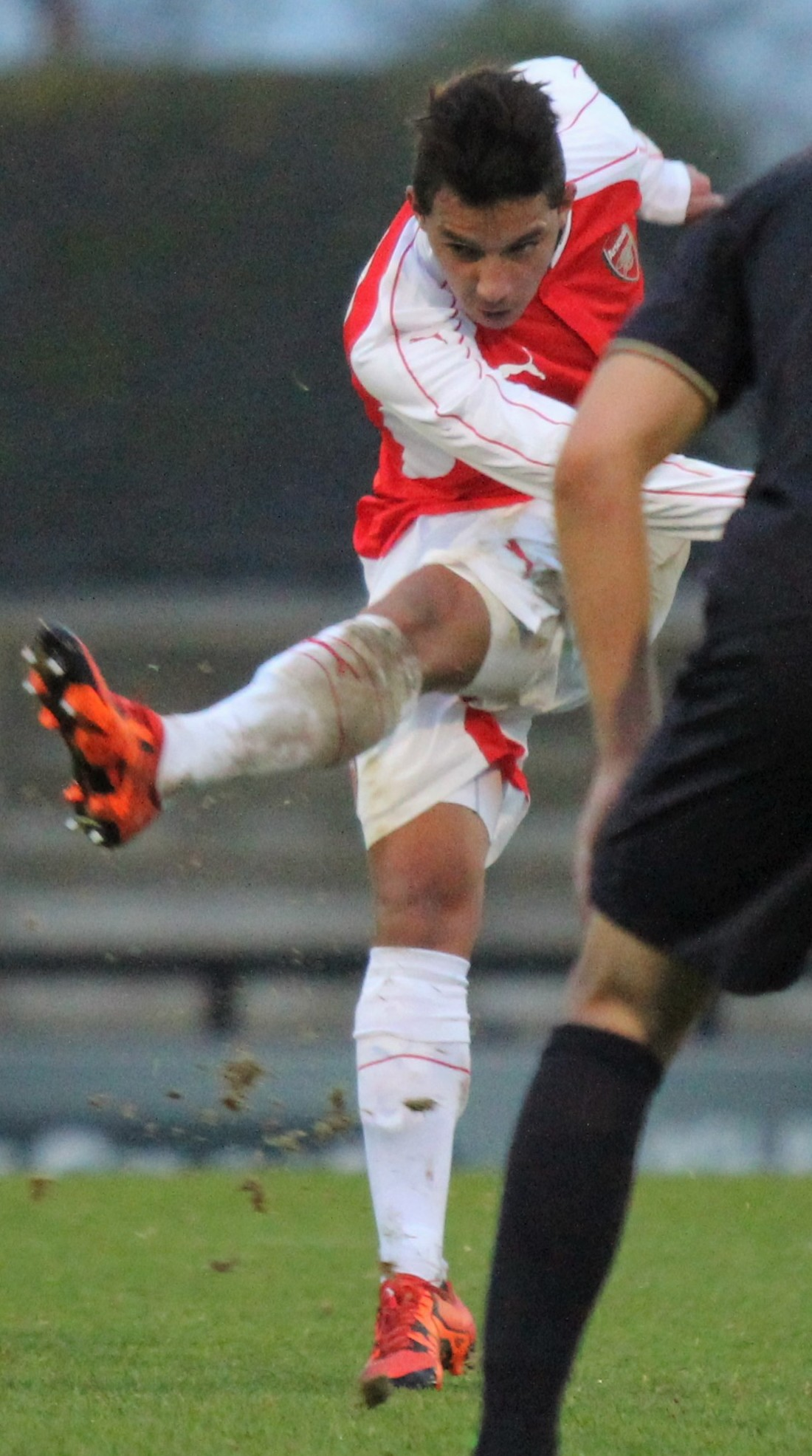 Ismaël Bennacer